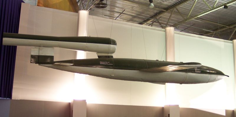 Fieseler Fi 103 aka V1